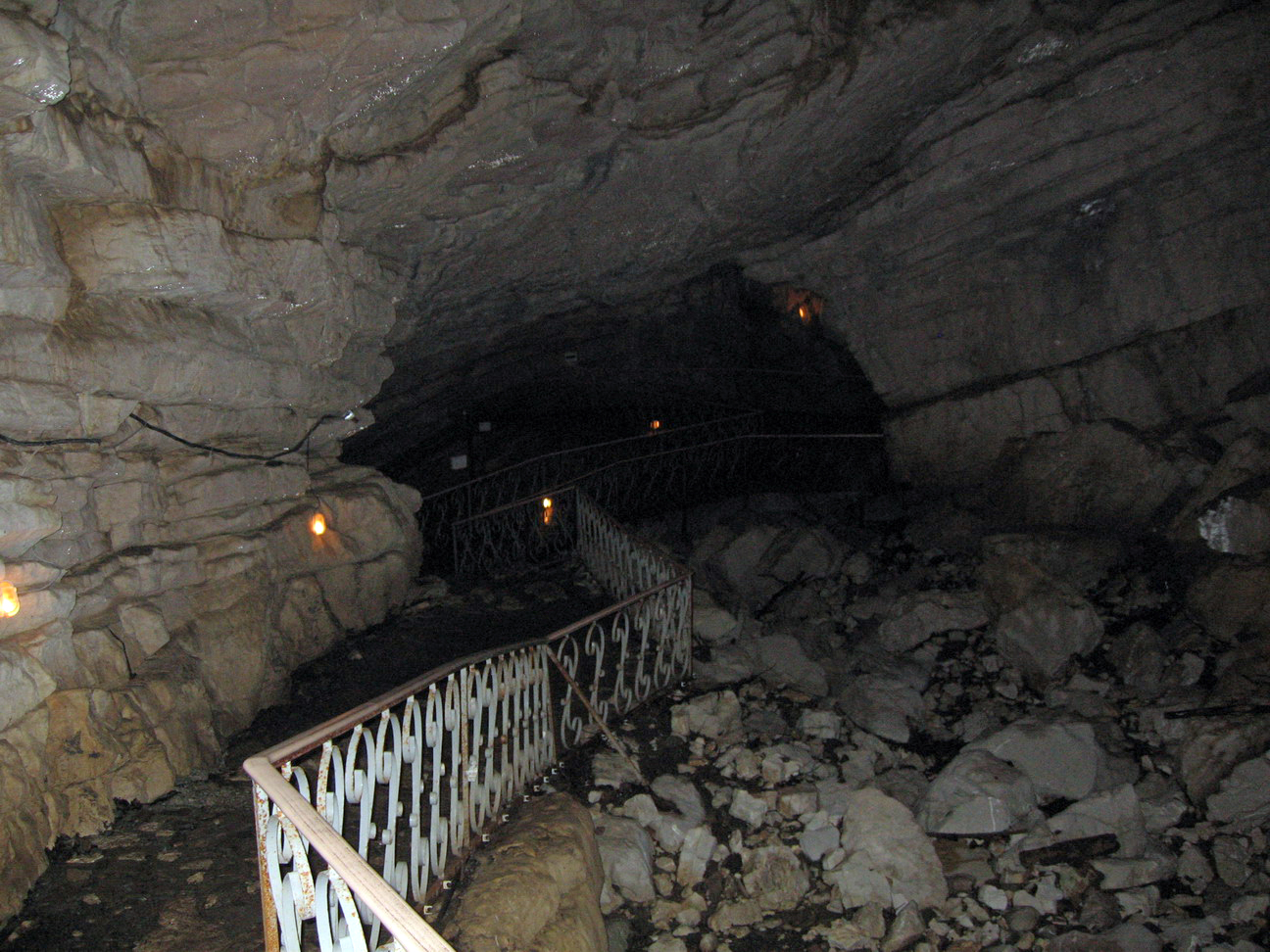 Entrance to the Vorontsovskaya Cave in Sochi